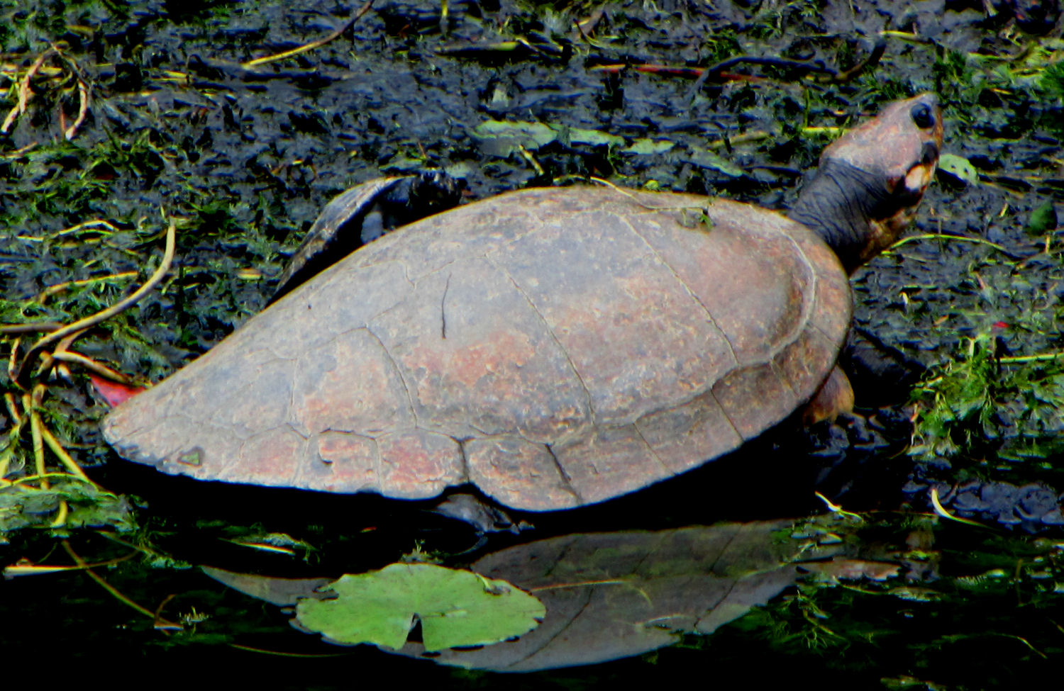 Magdalena River Turtle (Podocnemis lewyana), Medellin, Colombia